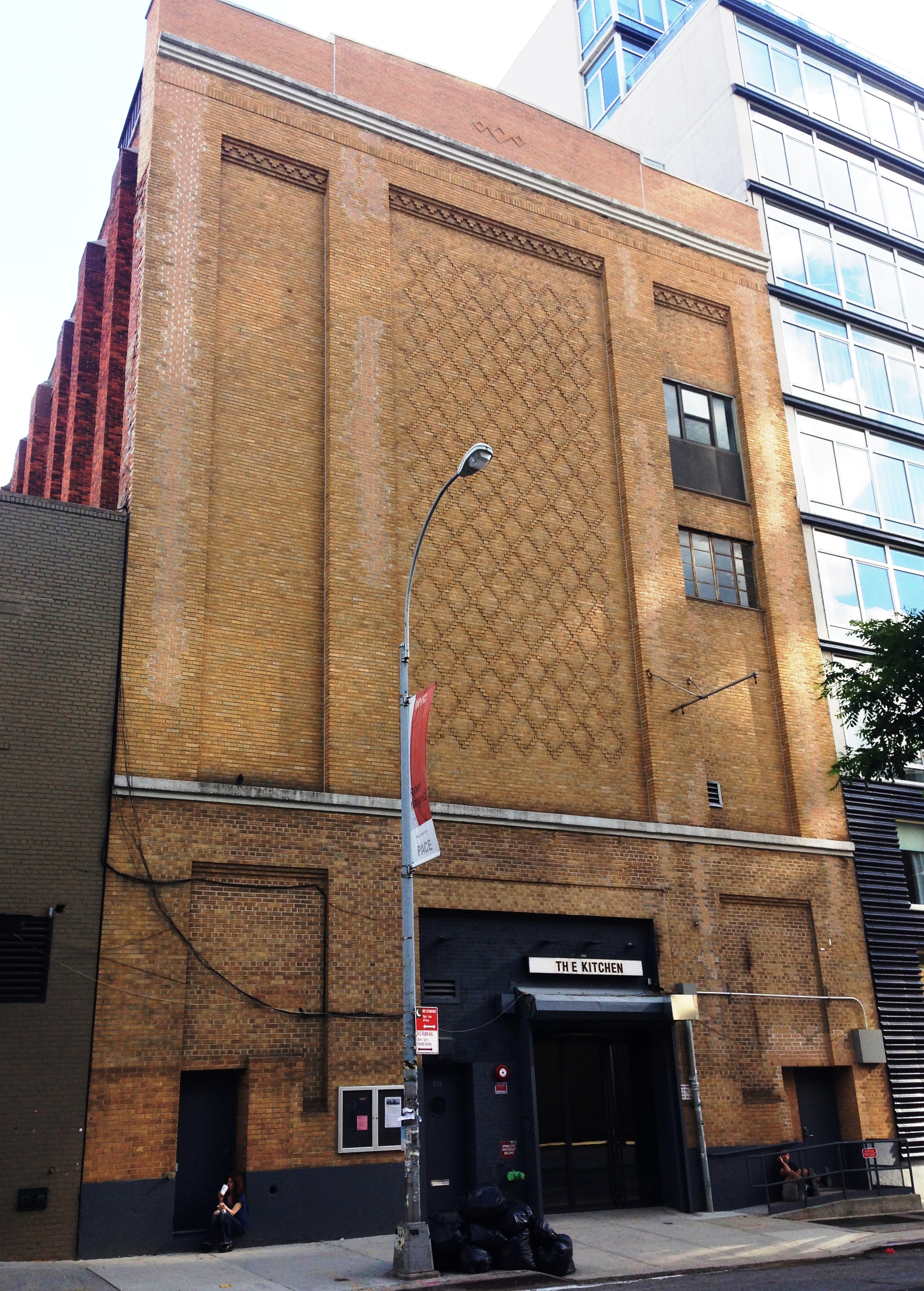 The Kitchen is a non-profit, multi-disciplinary art and performance space located at at 512 West 19th Street, between Tenth and Eleventh Avenues in the Chelsea neighborhood of Manhattan, New York City. It takes its name from its original (1971) location, the kitchen of the Mercer Arts Center. It has been located in its current building since 1987.